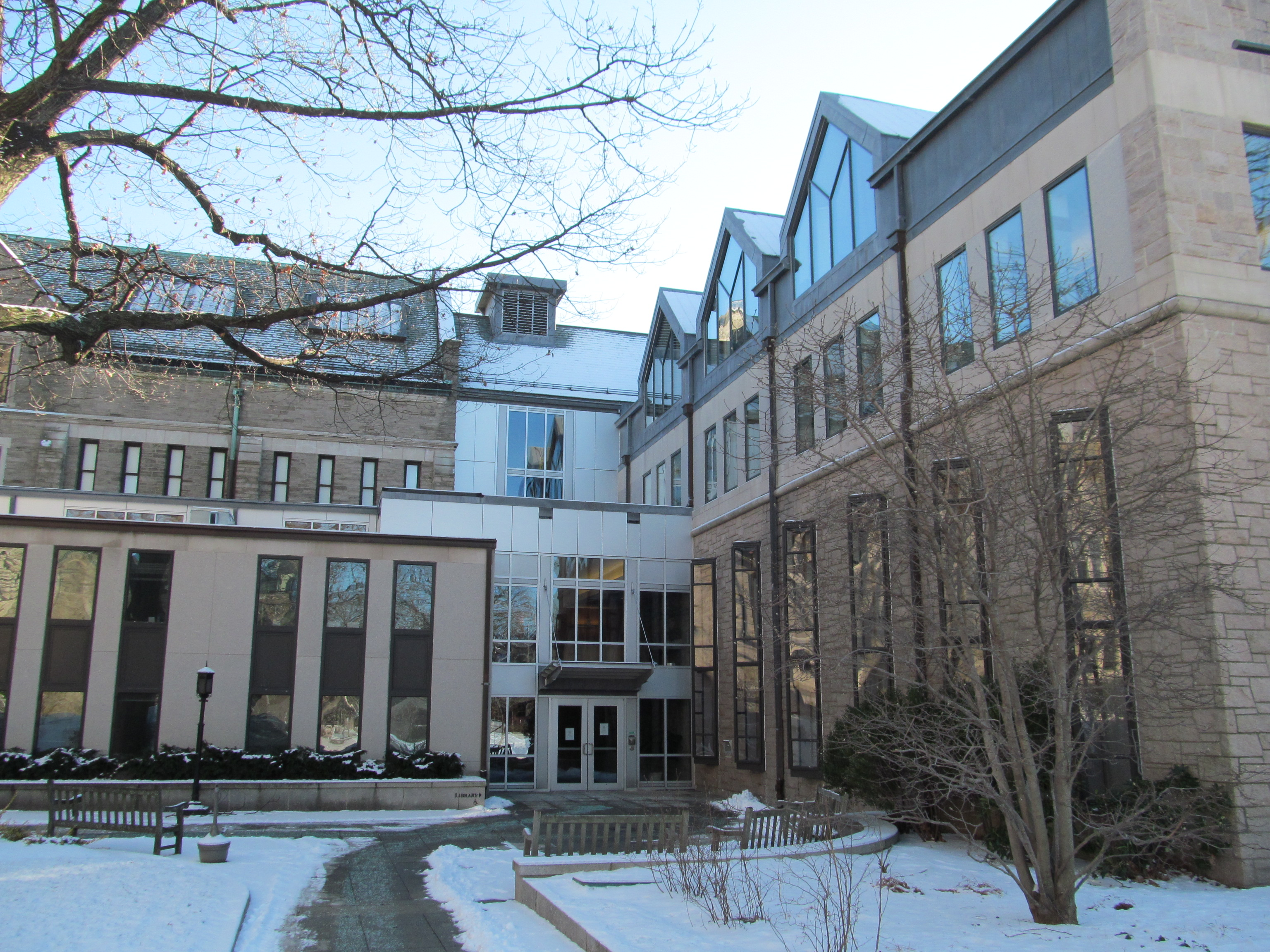 Andover-Harvard Theological Library, Harvard University, Cambridge Massachusetts